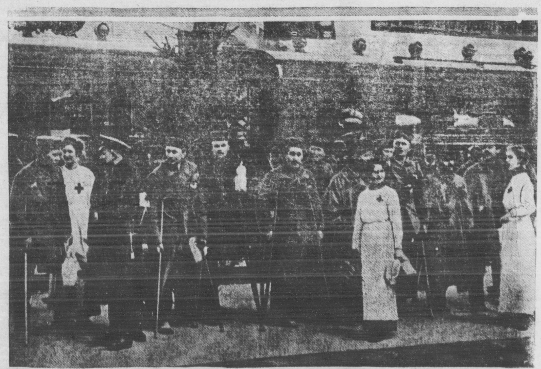 German Exchanged Prisoners Arrive at Home Through the agency and territory of Switzerland the nations now at war are exchanging war prisoners who, as the result of their injuries, are incapable of further service in the army. No able-bodied men are being exchanged. The photograph shows the arrival in Germany of the first detachment of German prisoners exchanged